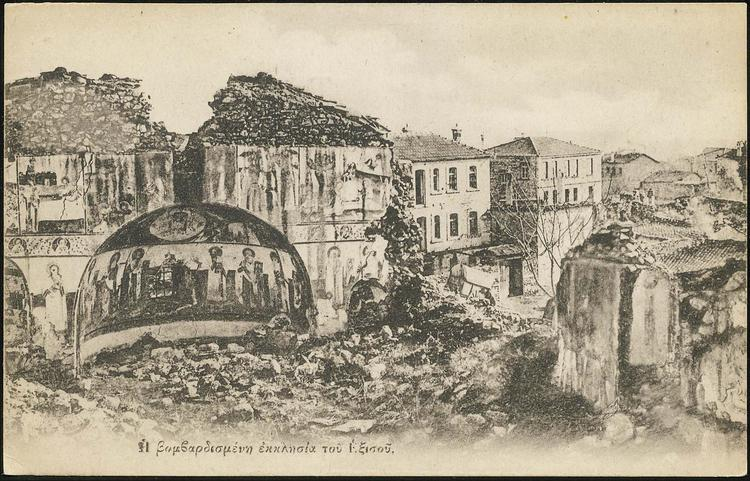 Destroyed church of Ekshi Su (today Xino Nero), during the Lerin offensive operation during the First World war